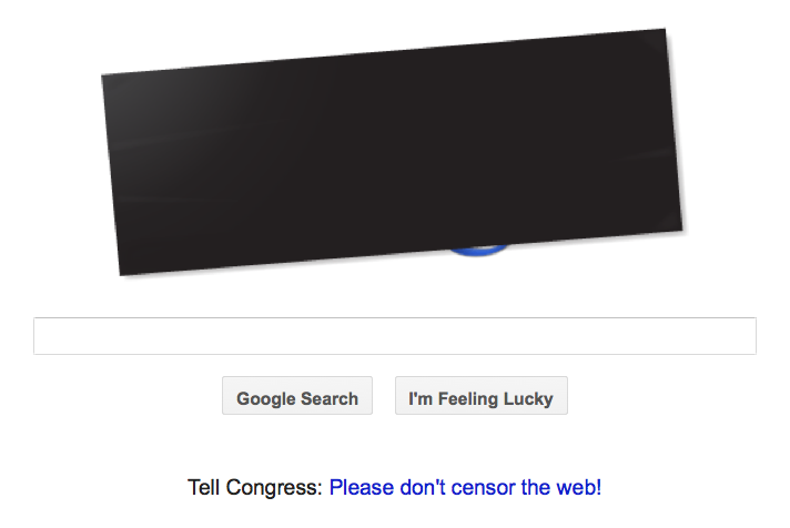 This Doodle is from Google in protest against SOPA